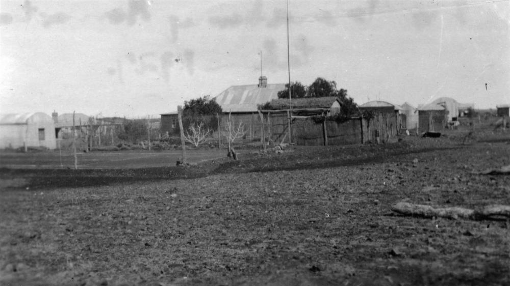 Arrabury Station in the Thargomindah District, Queensland, 1927 Arrabury Station was taken up by John Costello in 1875 then trasferred in 1879 to F. Peppin and J. Webber, to W. Campbell in 1880, then from thre to the Australian Mortgage and Agency Co. in 1892. After this the property was bought by Messrs Lindsay and Howe in 1908 and then to the Arrabury Pastoral Co. Ltd. on 5 January 1918.